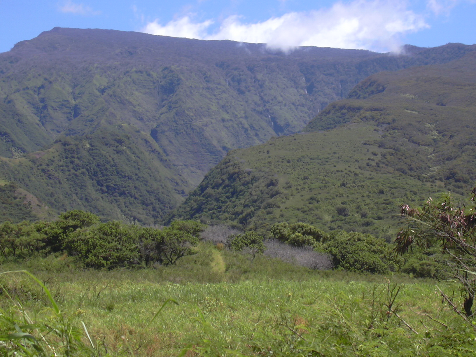 Psidium cattleianum (on slopes). Location: Maui, Kaupo